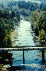 Little Missouri River from Army Corps of Engineers. Transwiki approved by: User:Dmcdevit. This image was copied from en.